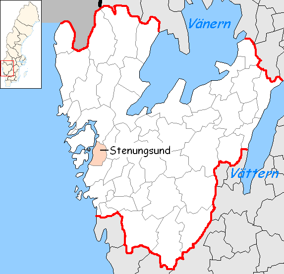 Stenungsund Municipality in Västra Götaland County Designed by me. Mere outlines are a PD source from